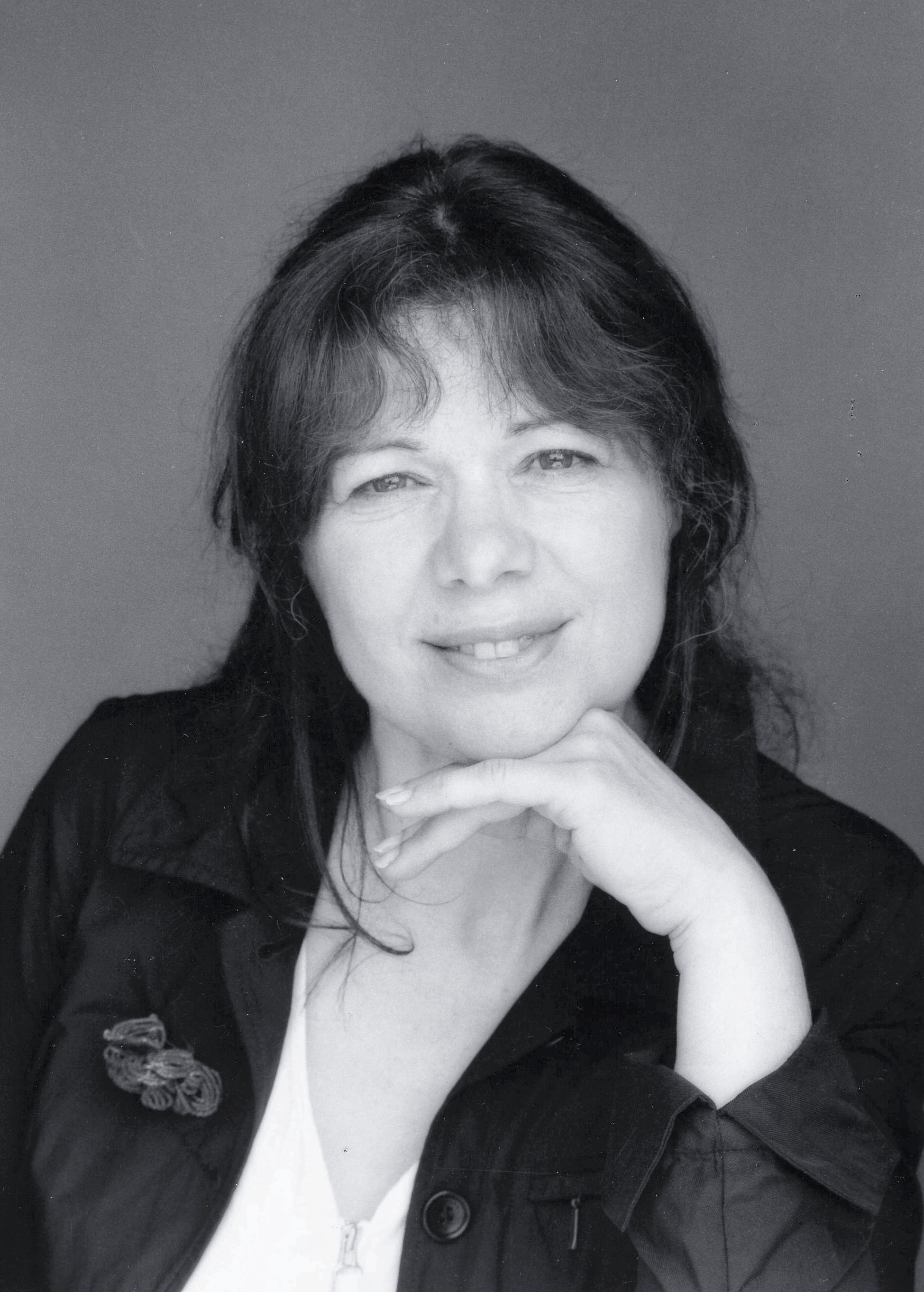 Photo noir et blanc